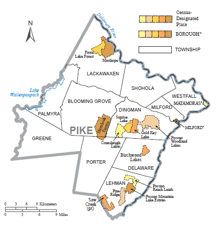 A map of Pike County, Pennsylvania, showing the borders of the townships, boroughs, and census-designated places contained within it, edited from the original 2010 census map. Original image included Monroe and Carbon Counties, and excluded the key (which came from page 2). The north arrow and the scale have been moved.